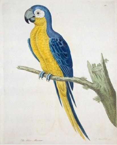 Unidentified parrot supposedly from Jamaica, but may be Ara martinica, copperplate engravings from Histoire Naturelle des Oiseaux published between 1735-1750.